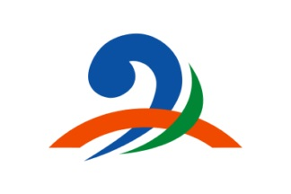 Flag of Minamiechizen Fukui